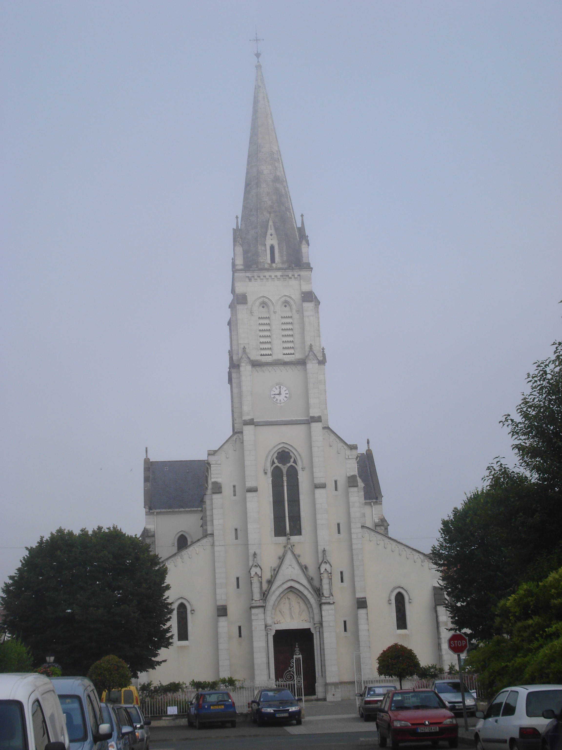 Sant-Palais (Pyr-Atl. Fr) church.